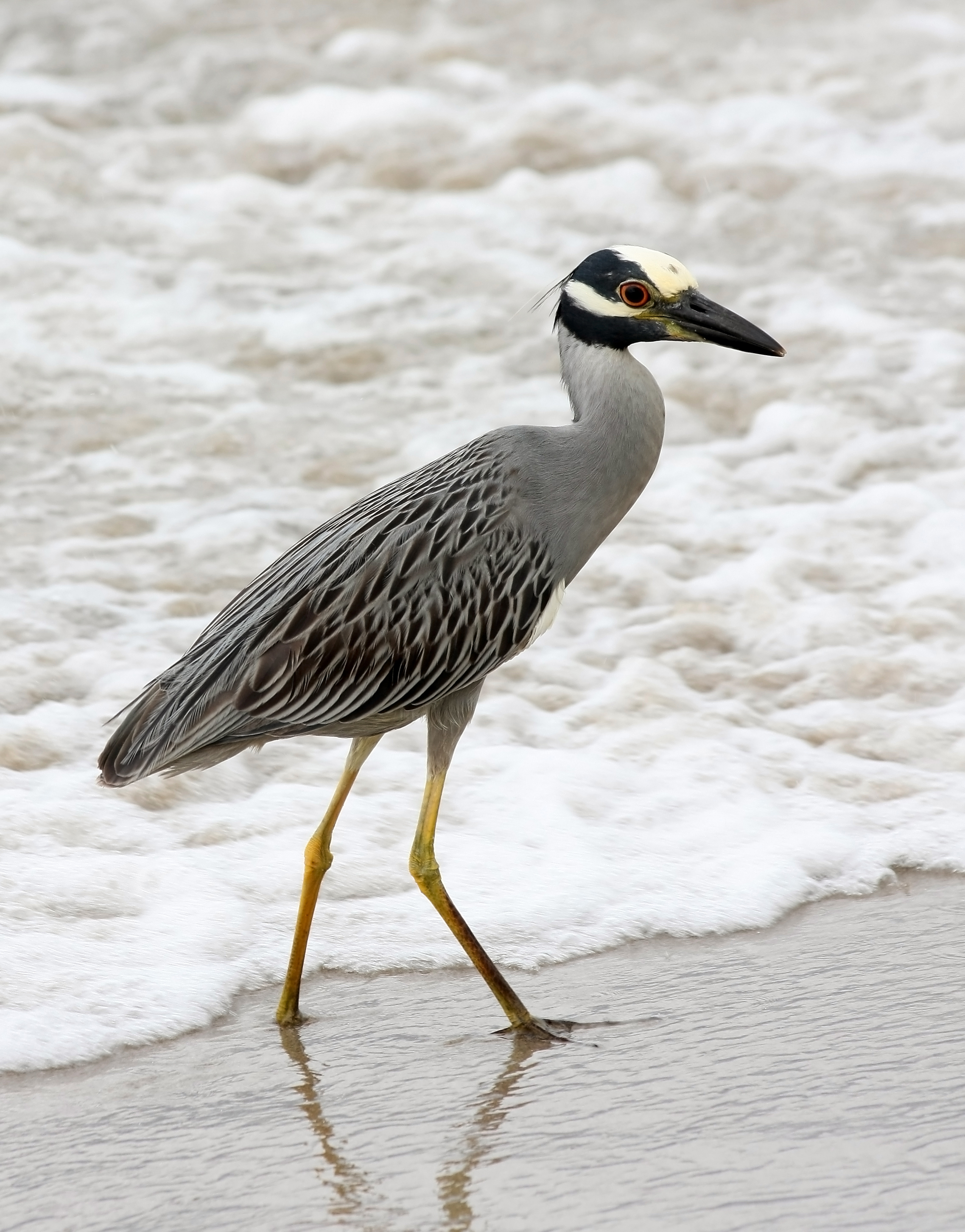 A yellow-crowned Night Heron at the beach in Boca Raton, Florida.